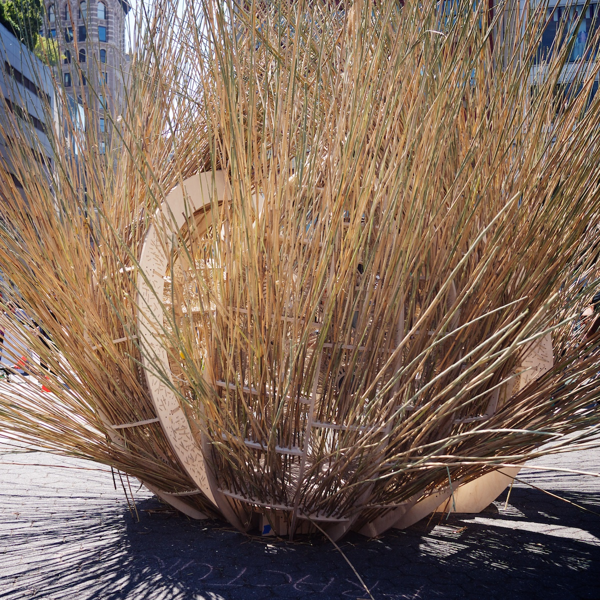 "Fractured Bubble" by Henry Grosman and Babak Bryan, Long Island City. “The sukkah is a bubble: ephemeral and transient” say Bryan and Grosman. Emphasizing its impermanence, Fractured Bubble is made of simple materials: plywood, marsh grass, and twine. Its form is a sphere fractured into three sections. The schach is composed of phragmites, an invasive species of marsh grass harvested from Corona Park, Queens."